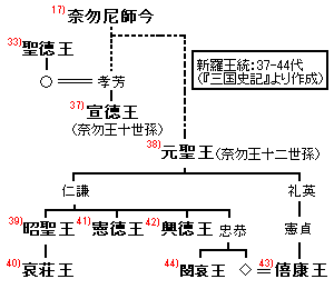 the geneology of Silla( 37th King ~ 44th King) / 新羅王系図(37代～44代)